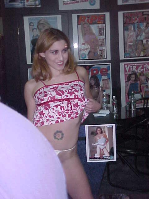 Jane Lixx at IA2000 (Internext Expo, part of AVN Expo), Jan 7 2000